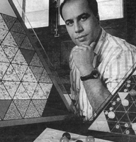 Photoportrait of Gianni A. Sarcone